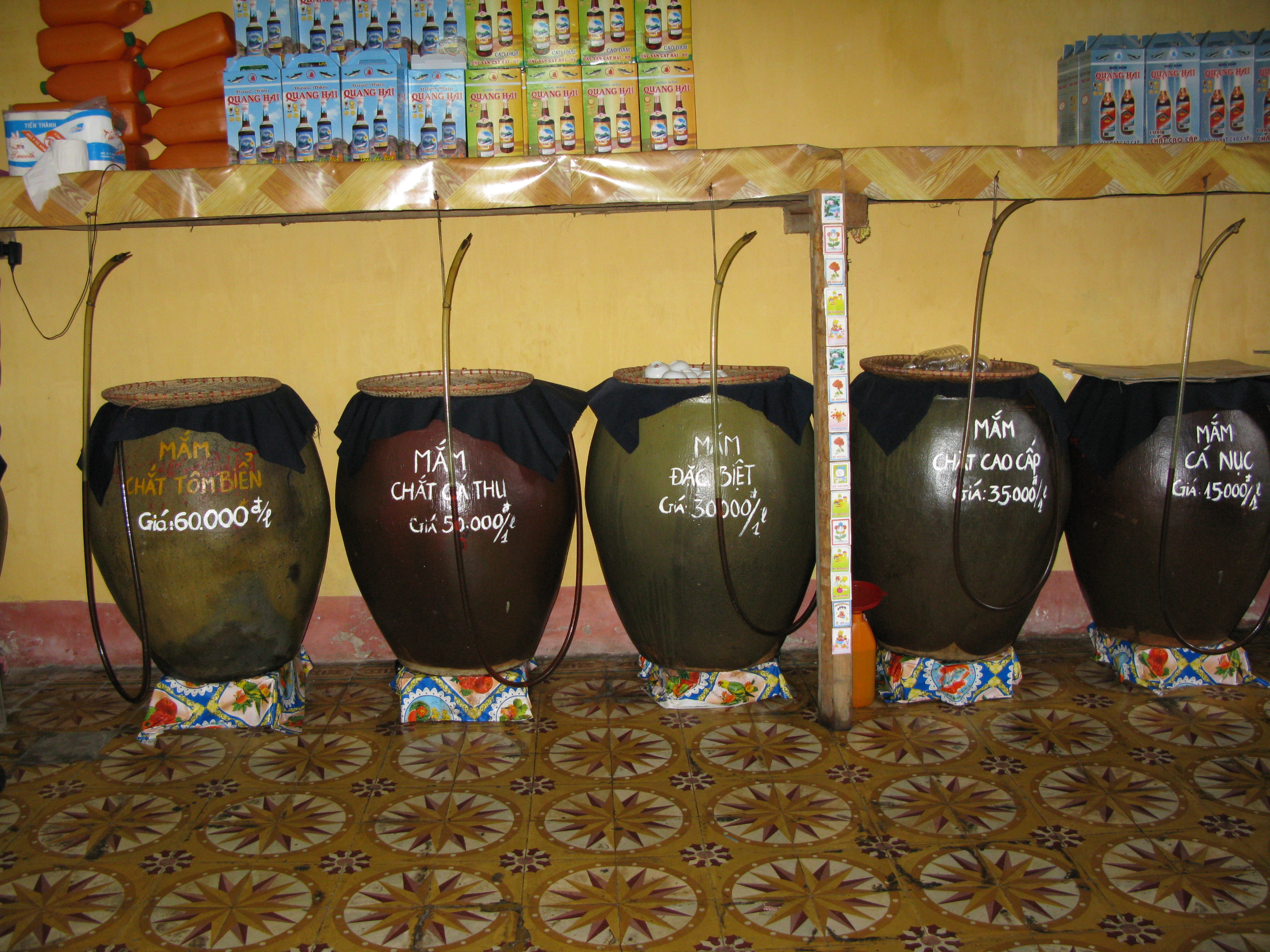 Jars of fish sauce for sale in Cat Ba marketplace, Vietnam.